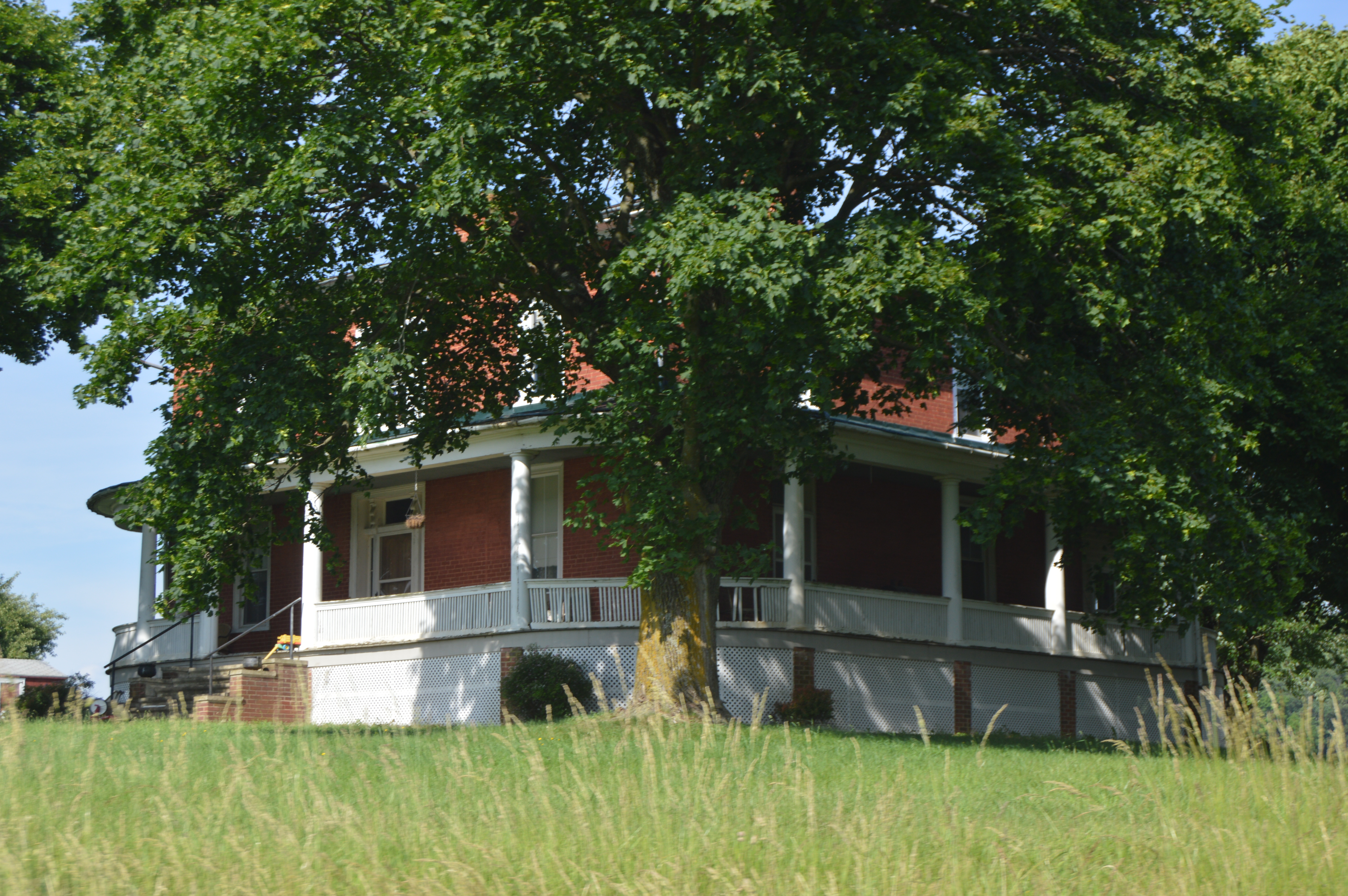 Front and western side of the A. J. Miller House, located on Sinking Springs Road northwest of Greenville in Augusta County, Virginia, United States. Built in 1884, it is listed on the National Register of Historic Places.